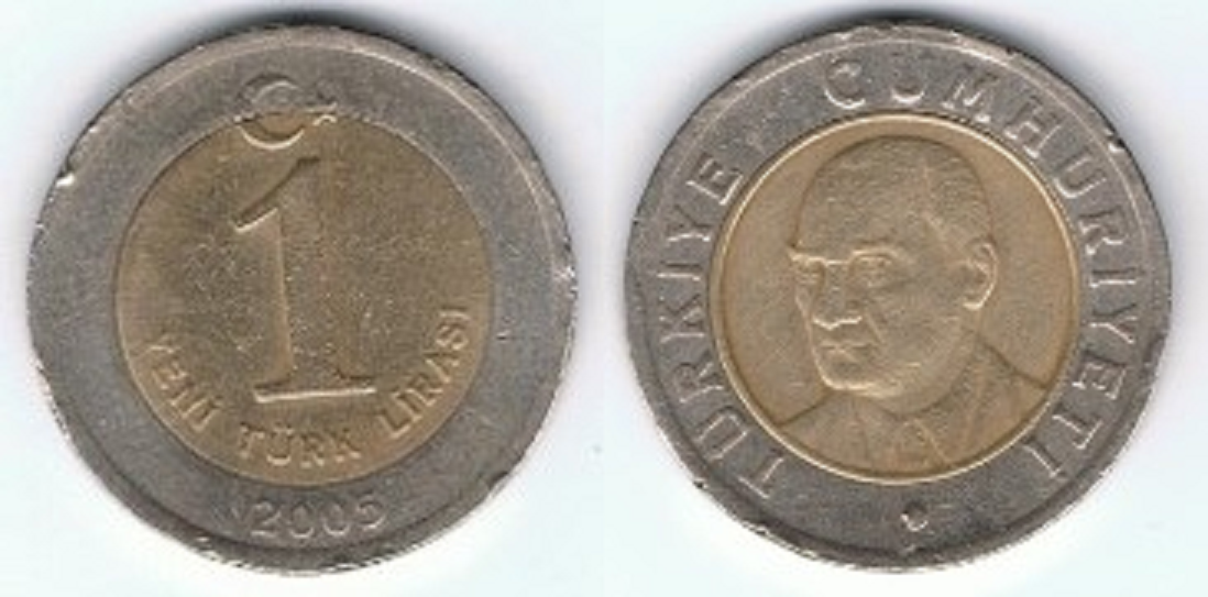 1 Turkish liraTürkçe: 1 türk lirası